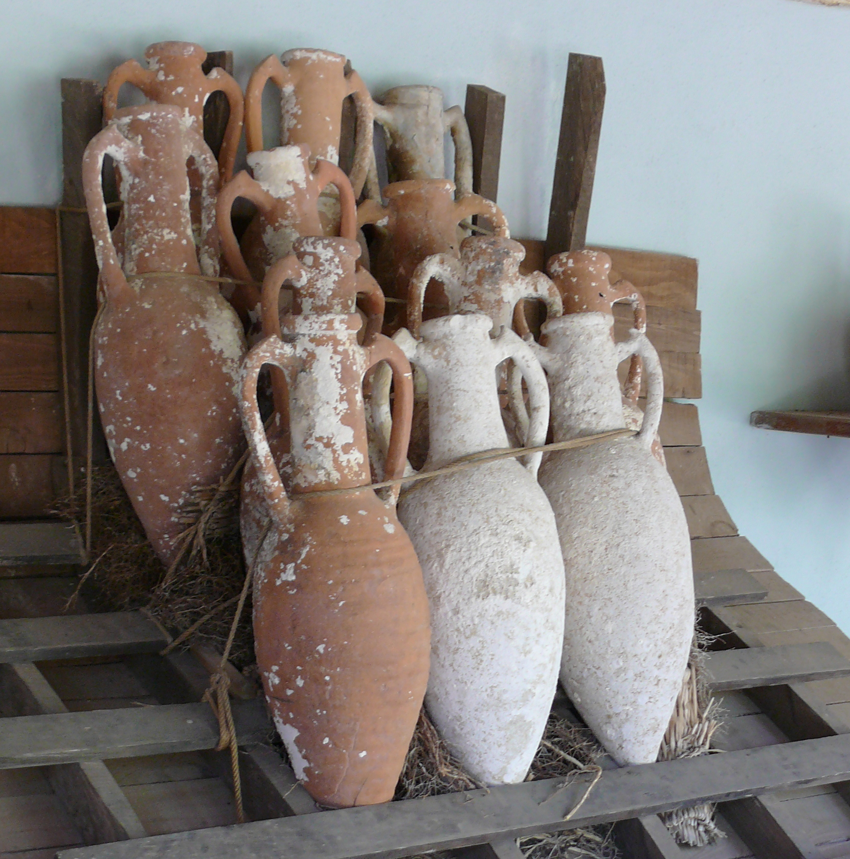 Amphorae stacking. Suggestion on how amphorae may have been stacked on a galley. (Bodrum Castle (Turkey)). A Galley (from Greek γαλέα - galea) is an ancient ship which is entirely propelled by human oarsmen.